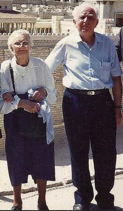 Emilia Słodkowska (improperly Amelia Sklodowska) & Samuel Lederman (Szmuel Liderman) - at a ceremony in Jerusalem, 1985